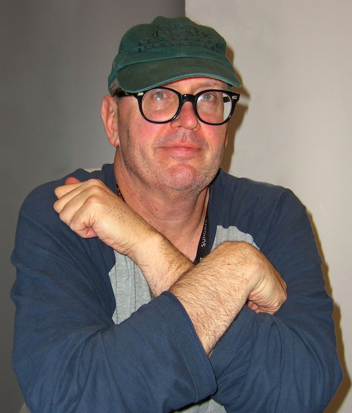 Comics creator Geof Darrow at the Midtown Comics booth at the 2011 New York Comic Con, Friday, October 14, 2011. This photo was created by Luigi Novi. It is not in the public domain, and use of this file outside of the licensing terms is a copyright violation.